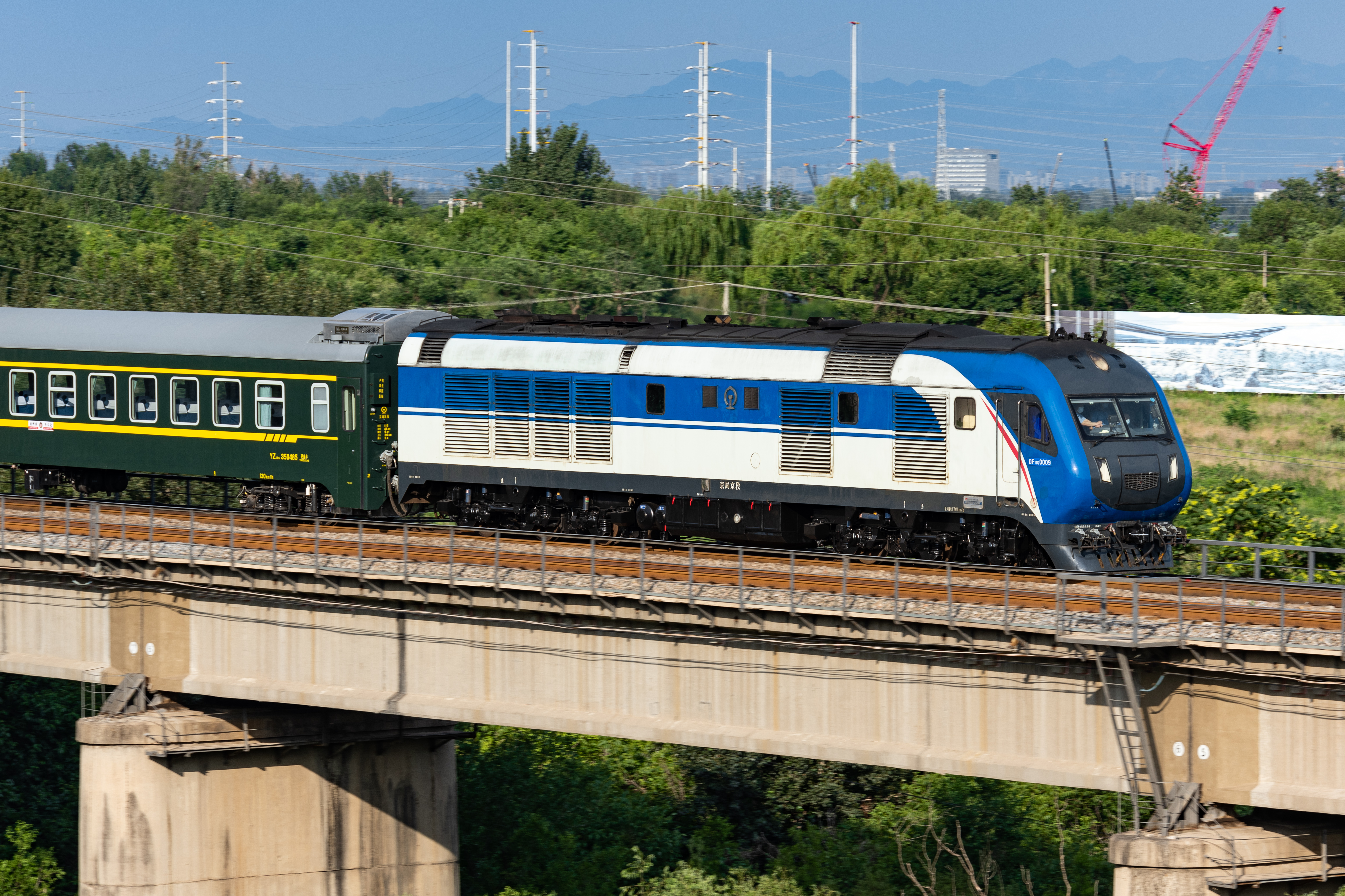 S612 from Huairou North to Tongzhou West. Now CR Beijing has learned "DF11G splitting" (jokingly DF5.5G) from CR Guangzhou!